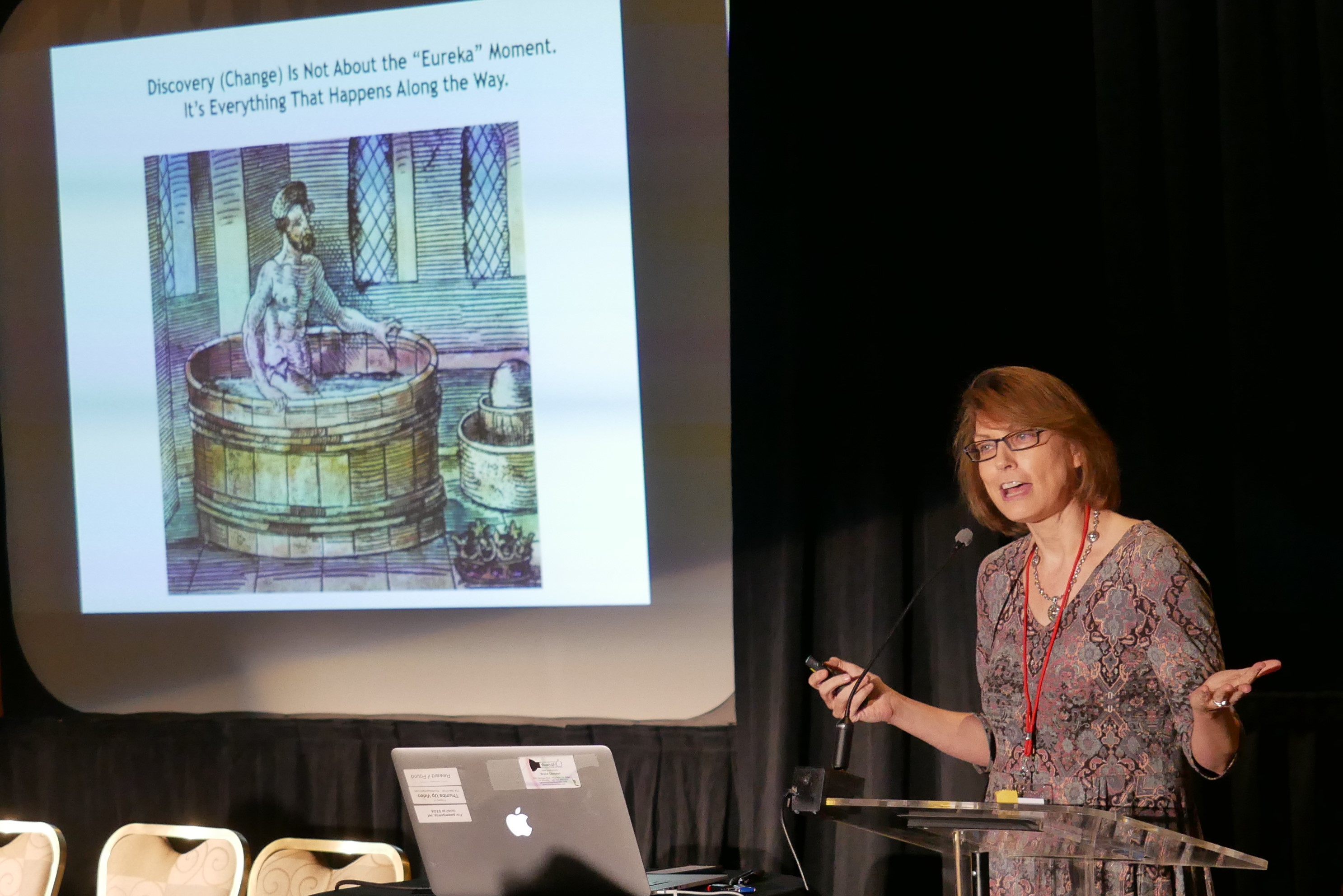 Taken at the August 26, 2018 Freethought Alliance conference